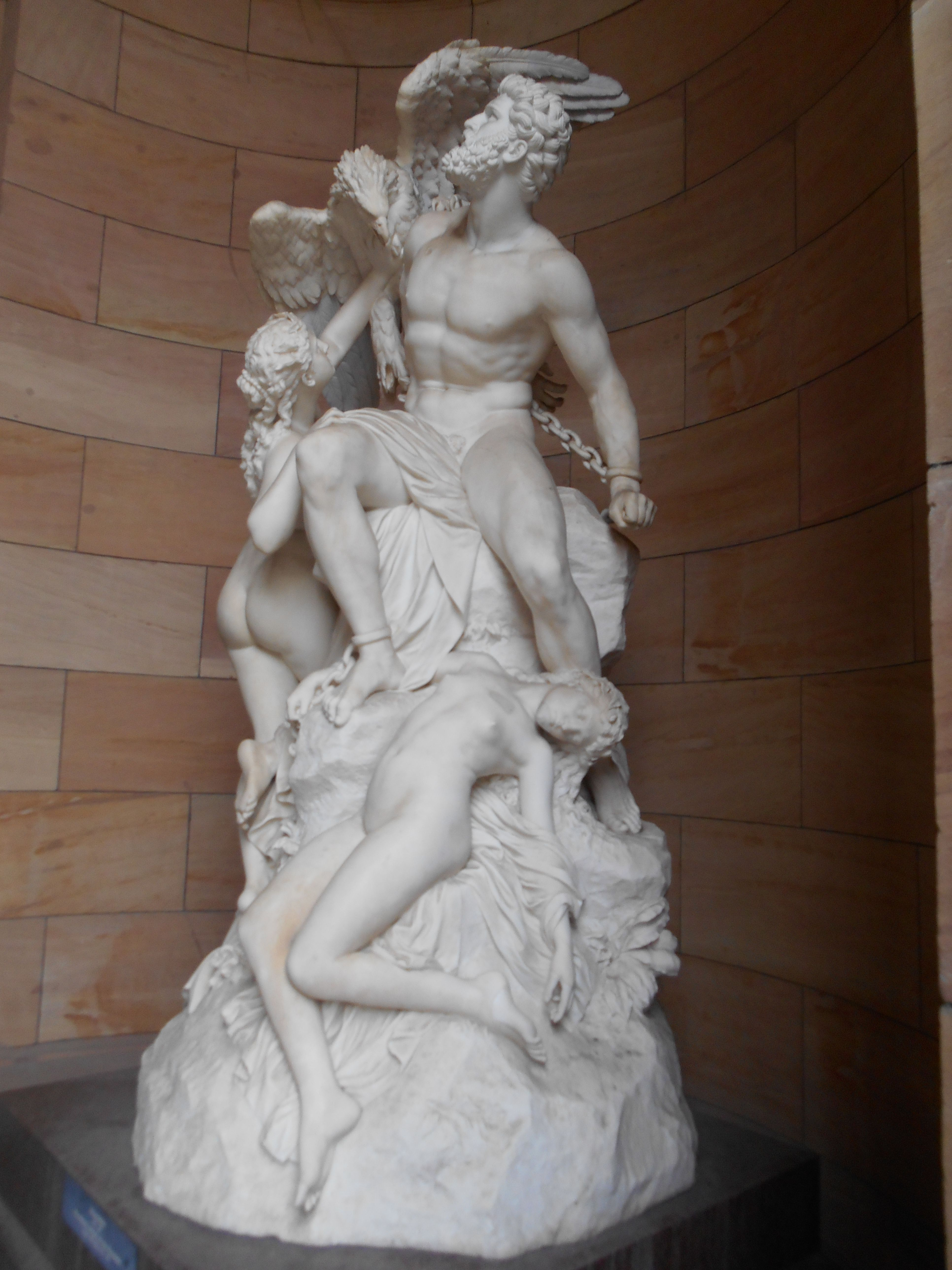 Prometheus, captivated (1872-1879) by Eduard Müller (1828-1895); Museumsinsel Berlin-Mitte, Berlin (Germany)